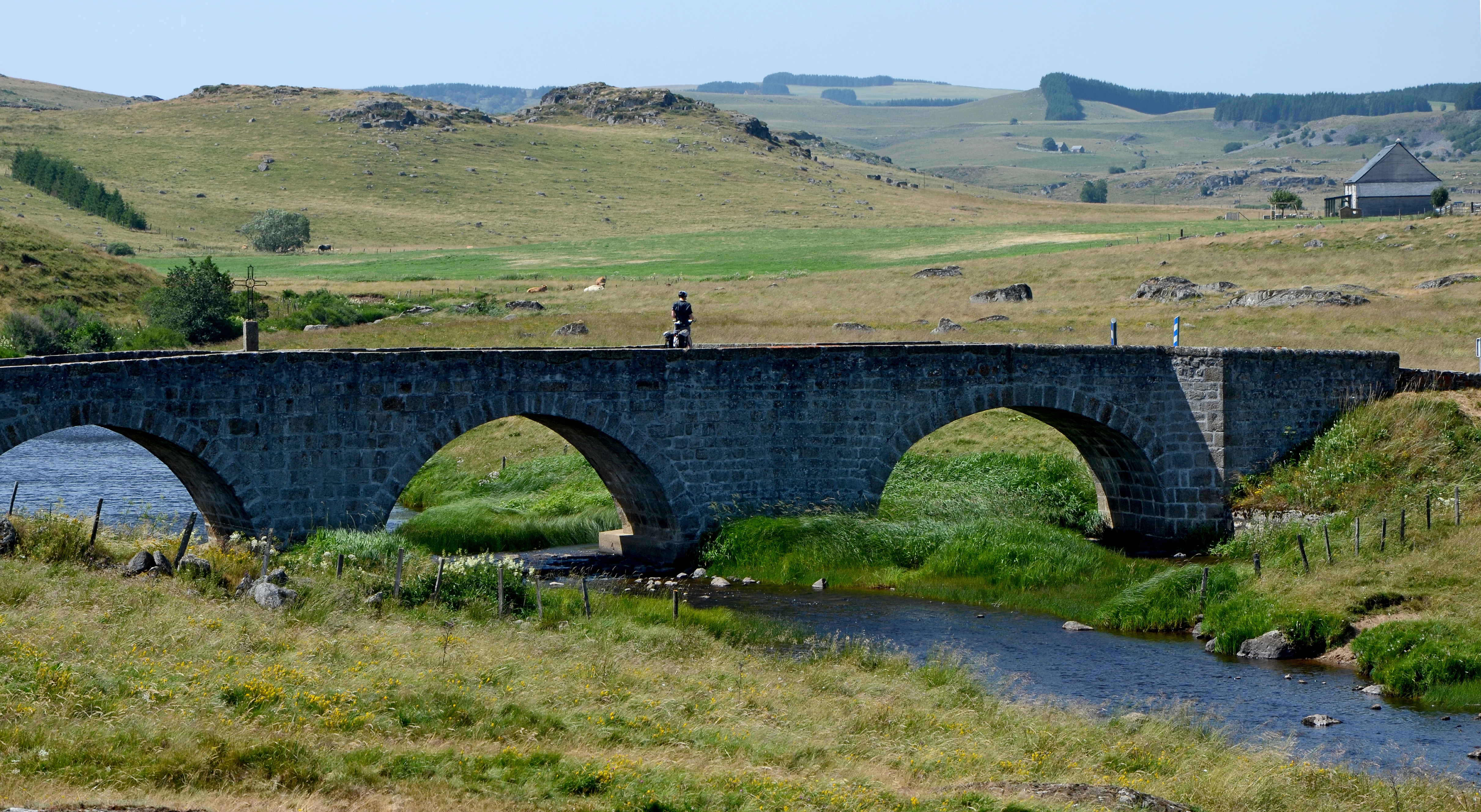 Old ridge over the river Bès near Rieutort, Marchastel, Lozère, France